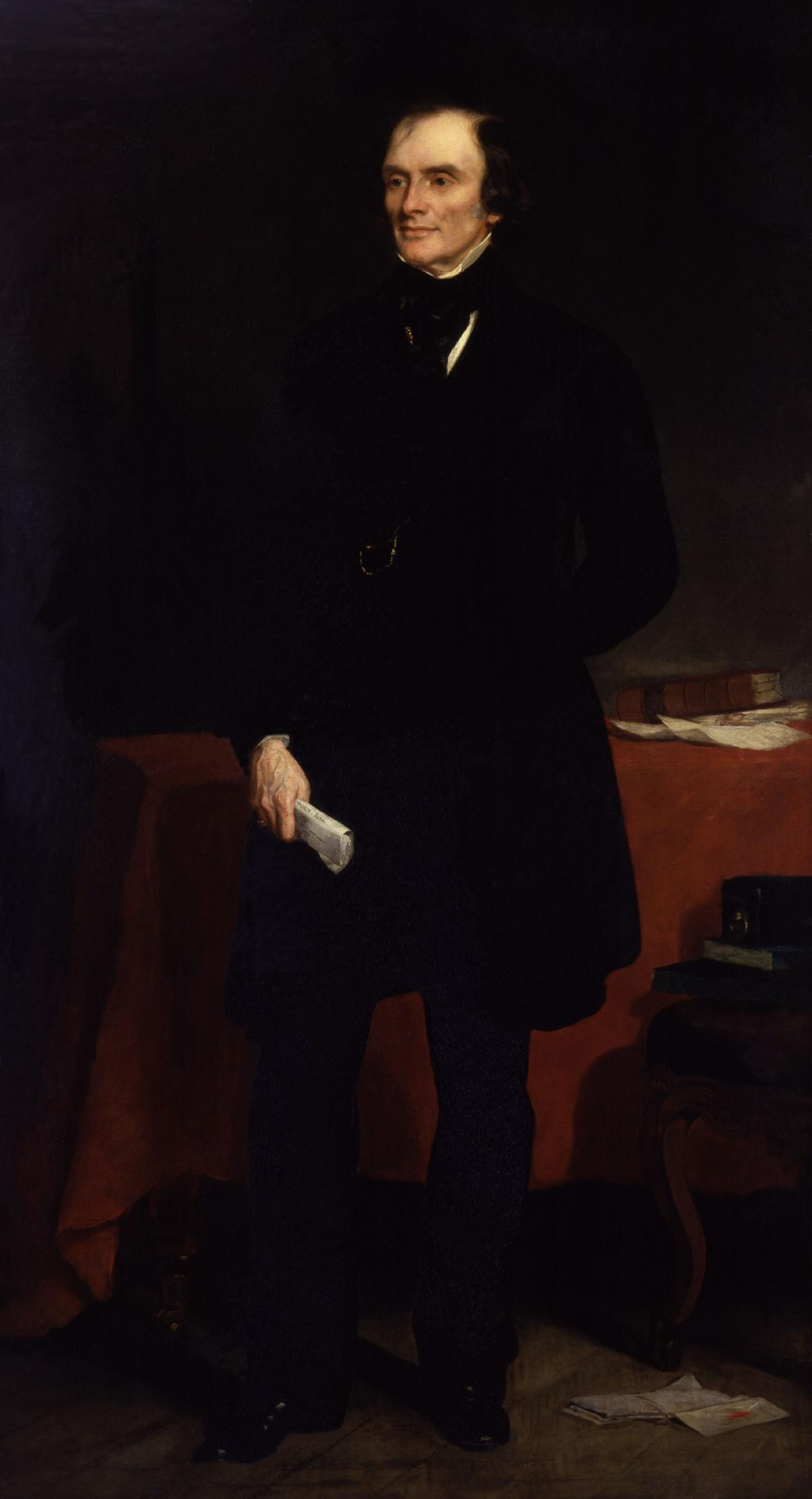 John Russell, 1st Earl Russell, by Sir Francis Grant (died 1878), given to the National Portrait Gallery, London in 1898. All images in this batch have been confirmed as author died before 1939 according to the official death date listed by the NPG.